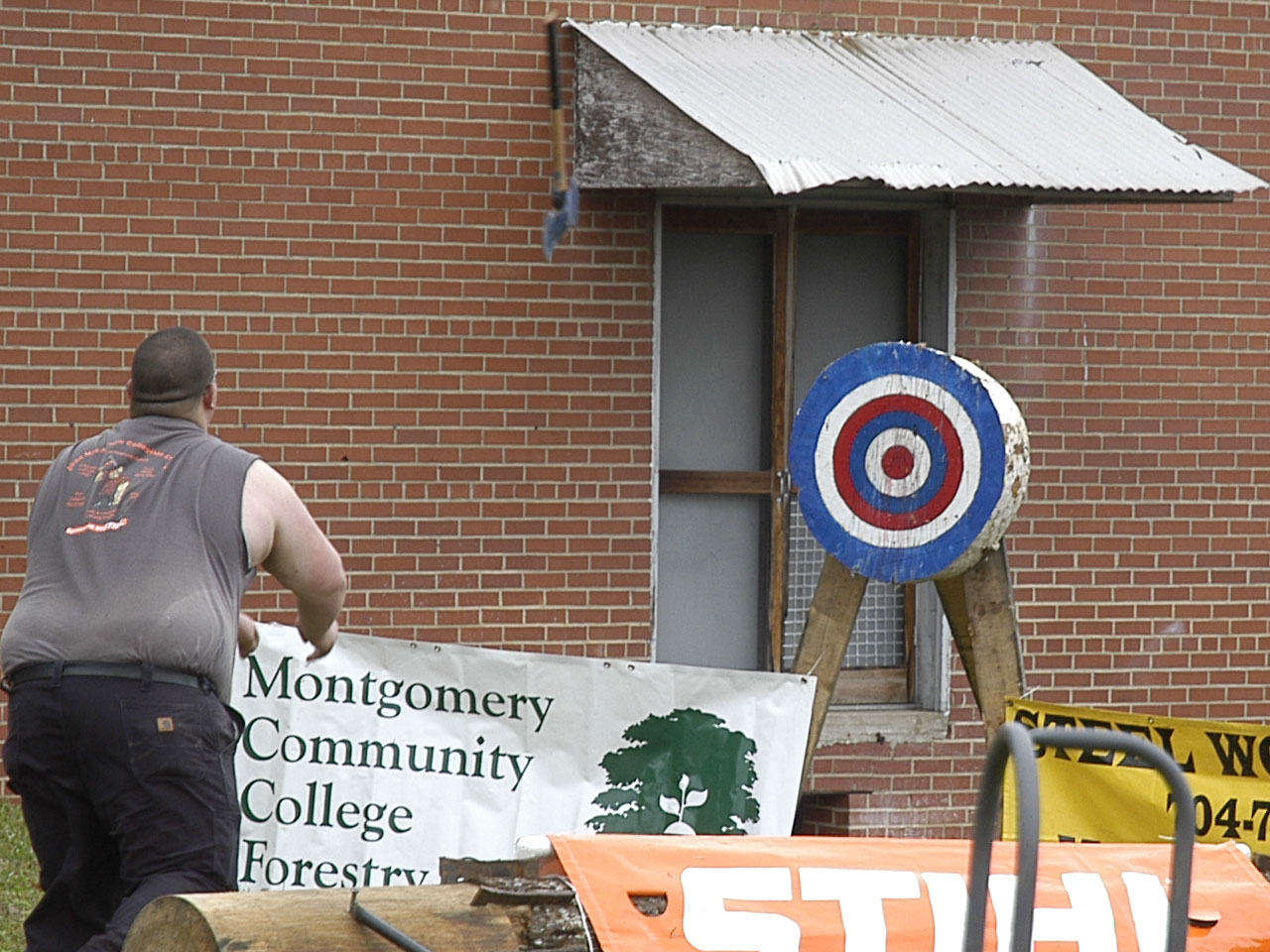 Lexington Barbecue Festival 2008 - Lumberjack games. Note axe in mid flight. Man throwing is really nicknamed "Tiny".